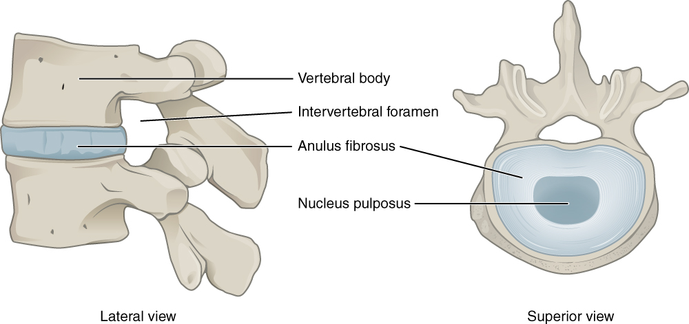 Illustration from Anatomy & Physiology, Connexions Web site. Jun 19, 2013.